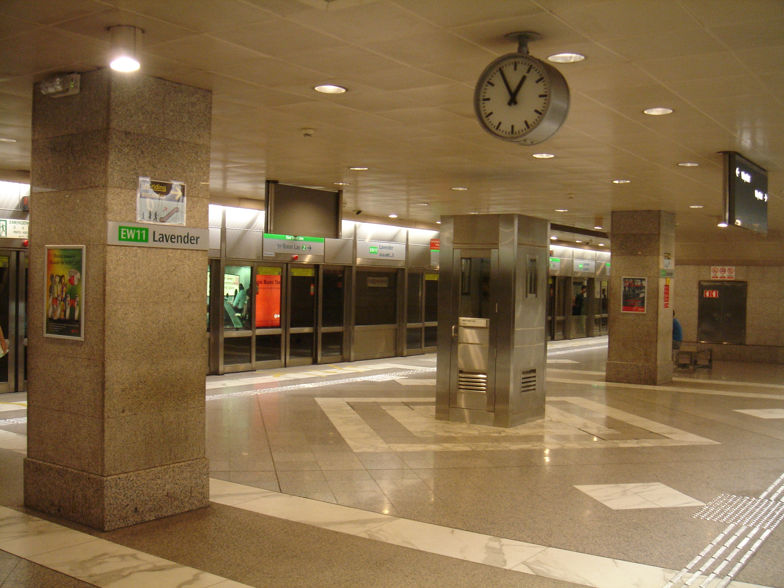 Lavender MRT Station, Kallang Road, Singapore.